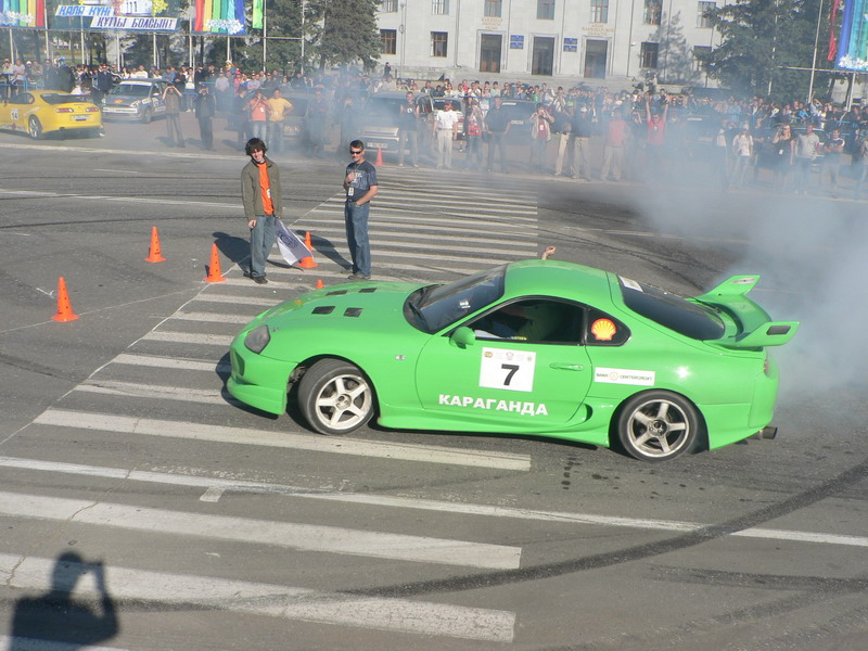 Boris Machkalyan from Karaganda drifts at his Toyota Supra TwinTurbo. Pavlodar streetracers at city festival. 2007